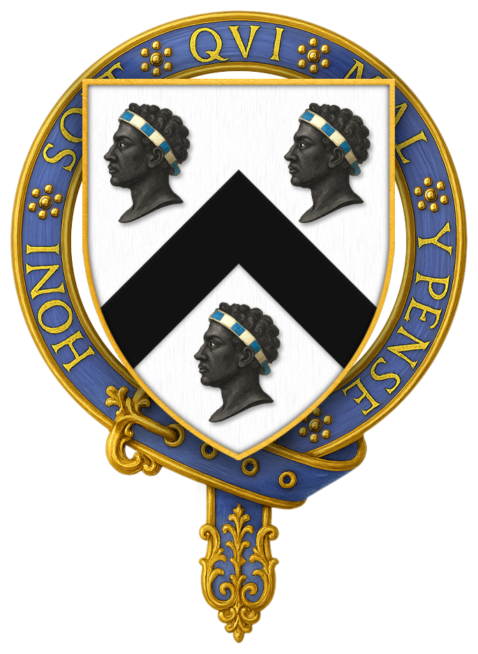 Sir John Wenlock, KG BURKE, Sir Bernard, The General Armory of England, Scotland, Ireland, and Wales; Comprising a Registry of Armorial Bearings from the Earliest to the Present Time, London: Harrison & Sons, 1884. “ Wenlock (Baron Wenlock, extinct 1471; John Wenlock, Escheator, cos. Bucks. and Bedford, 17 Henry VI., was created, 1461, Baron Wenlock, of Wenlcok, co. Salop. He fell at the Battle of Tewkesbury s.p., when his estate devolved on his heir, General Thomas Lawley…). Ar. a chev. beta. three blackamoors' heads erased ppr." [Foster states sable] ”